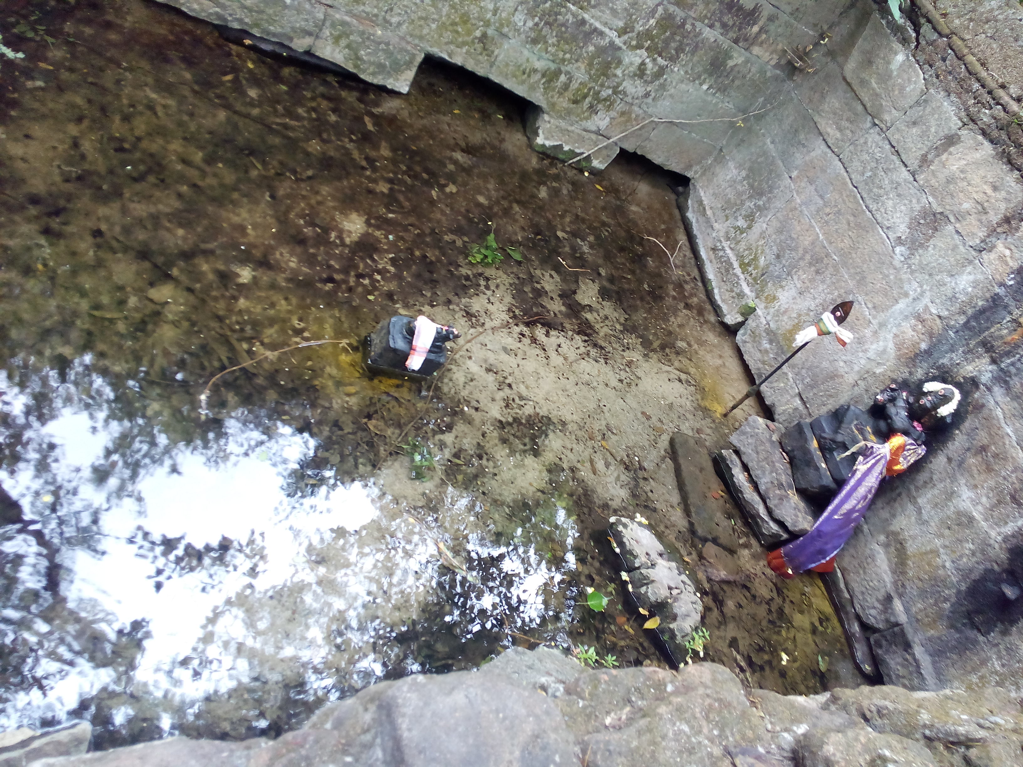 கங்கைக்கு நிகரான தீர்த்தம்